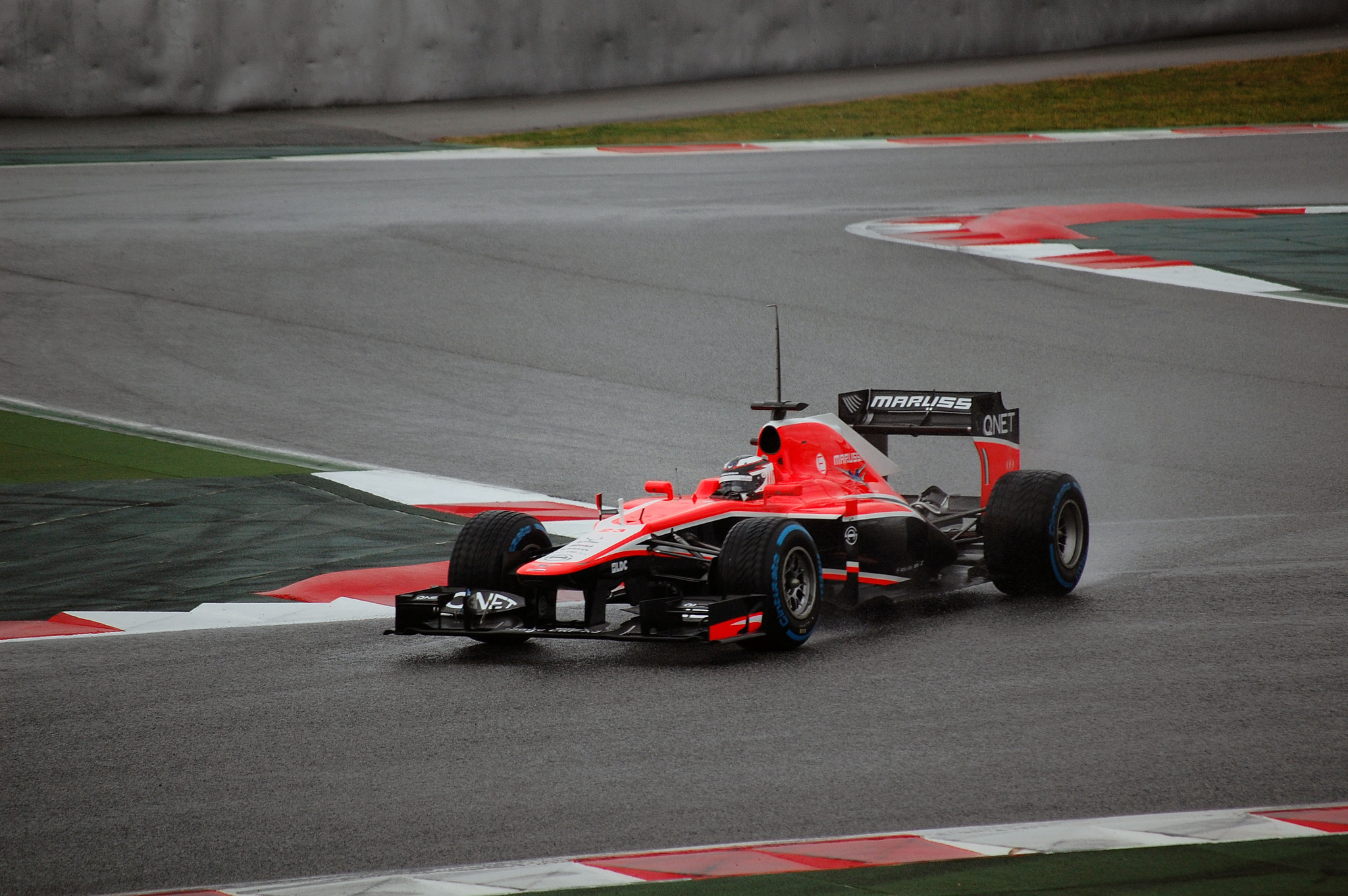 Chilton drives on day 1 of the second Barcelona test